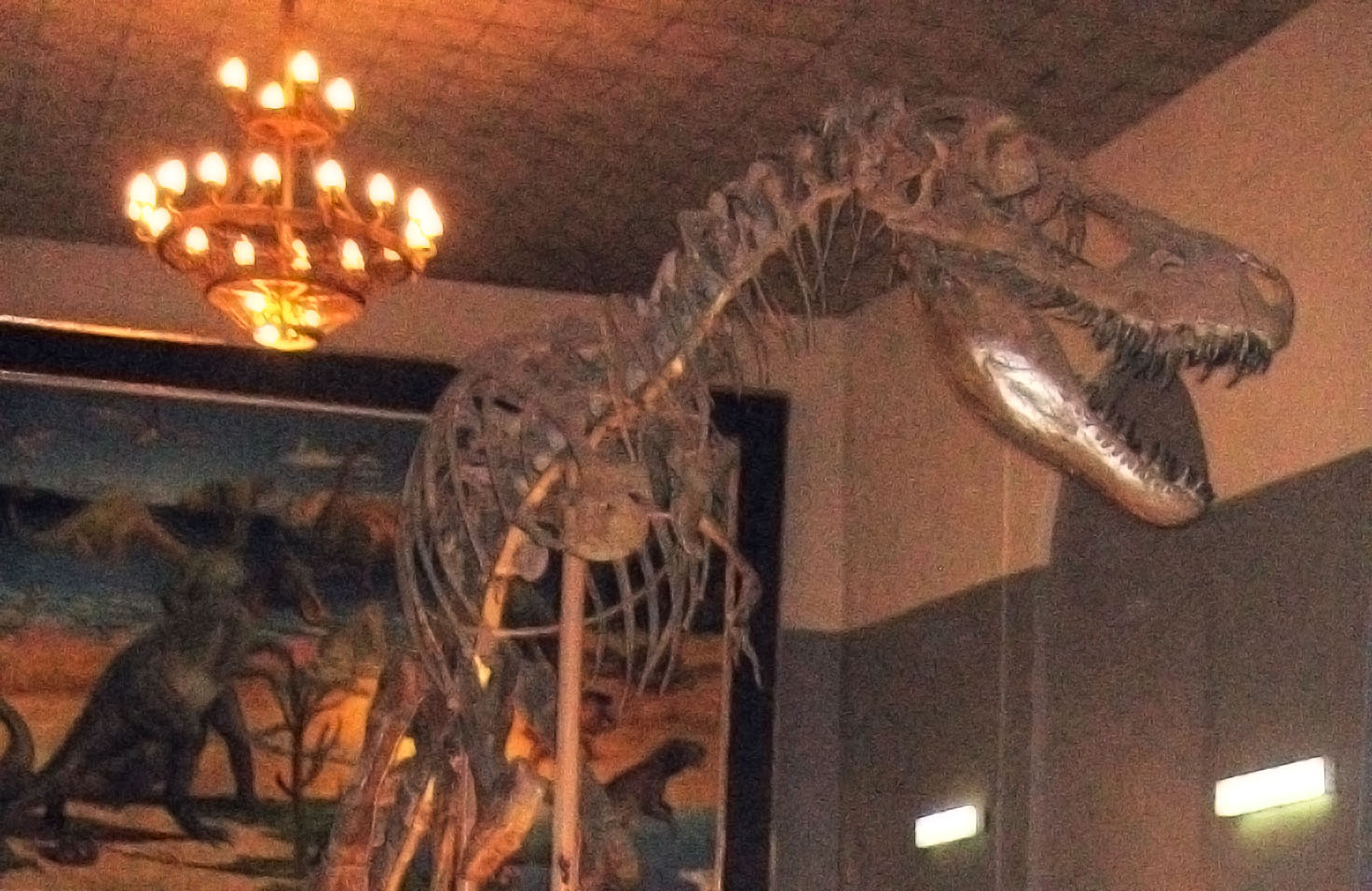 Tarbosaurus in the Mongolian Natural History Museum